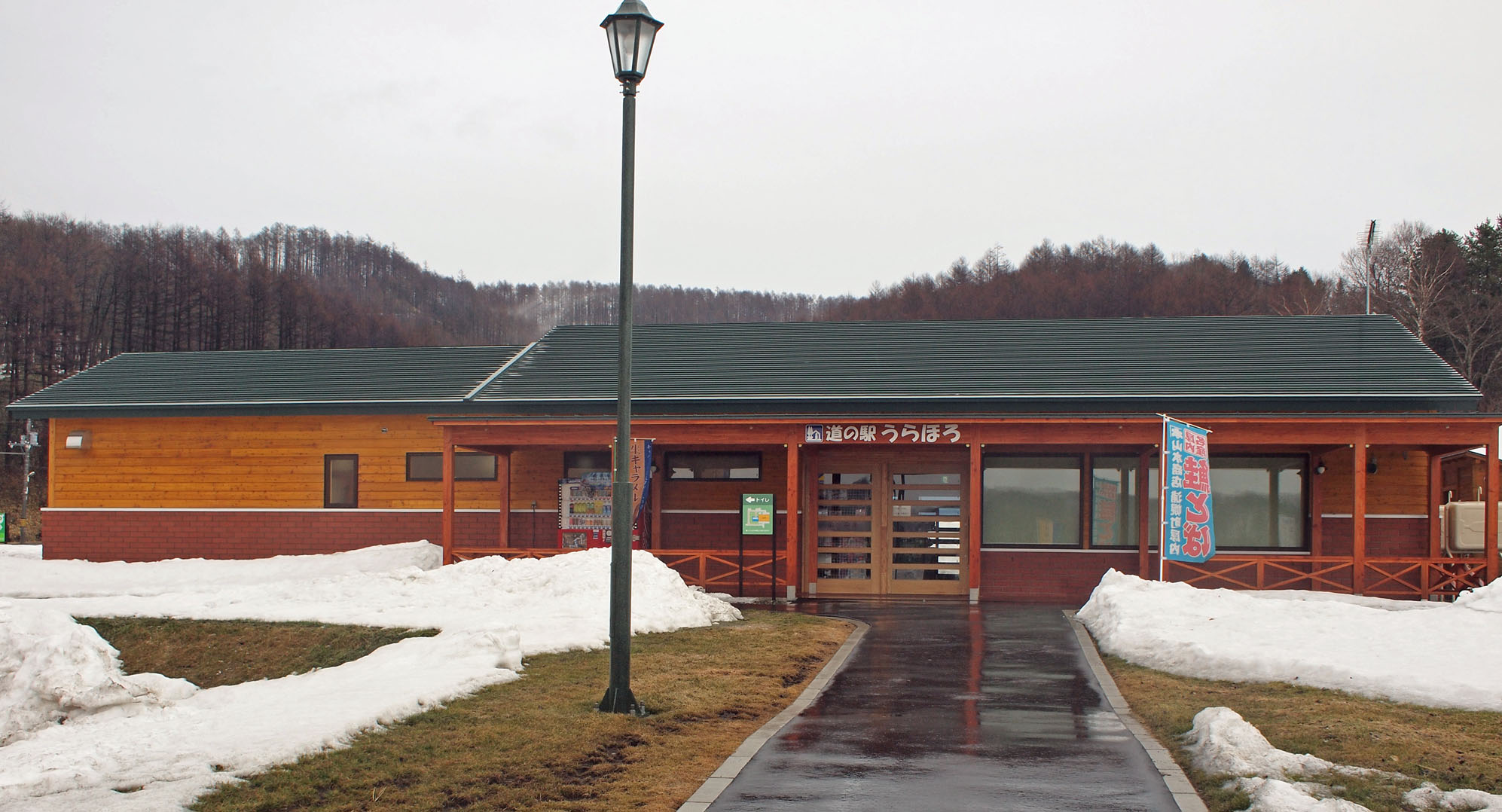 Roadside station Urahoro, Urahoro, Hokkaido, Japan